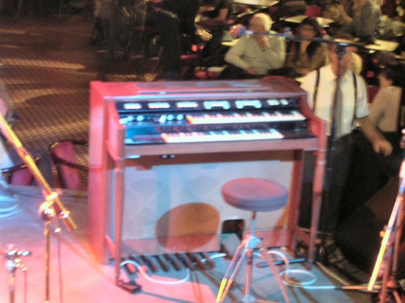 Hammond Organ (picture taken at a James Taylor Quartet concert, Forlì, Italy, November 2005) Hammond M-100 series (may be)